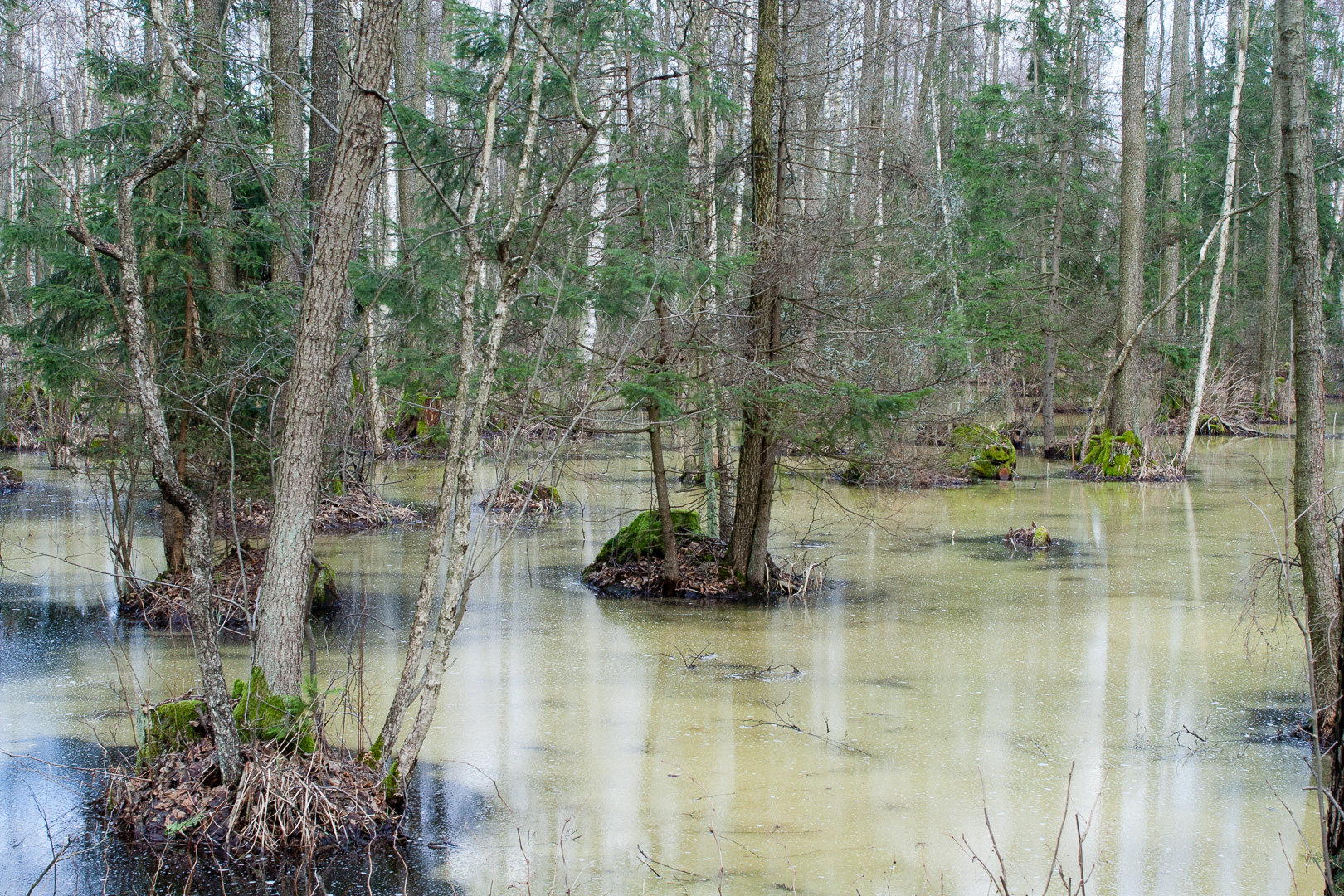 A swamp forest by the so called Tsar Road in Biebrza National Park, Poland This is a photography of Natura 2000 protected area with ID PLB200006 This is a photography of Natura 2000 protected area with ID PLH200008